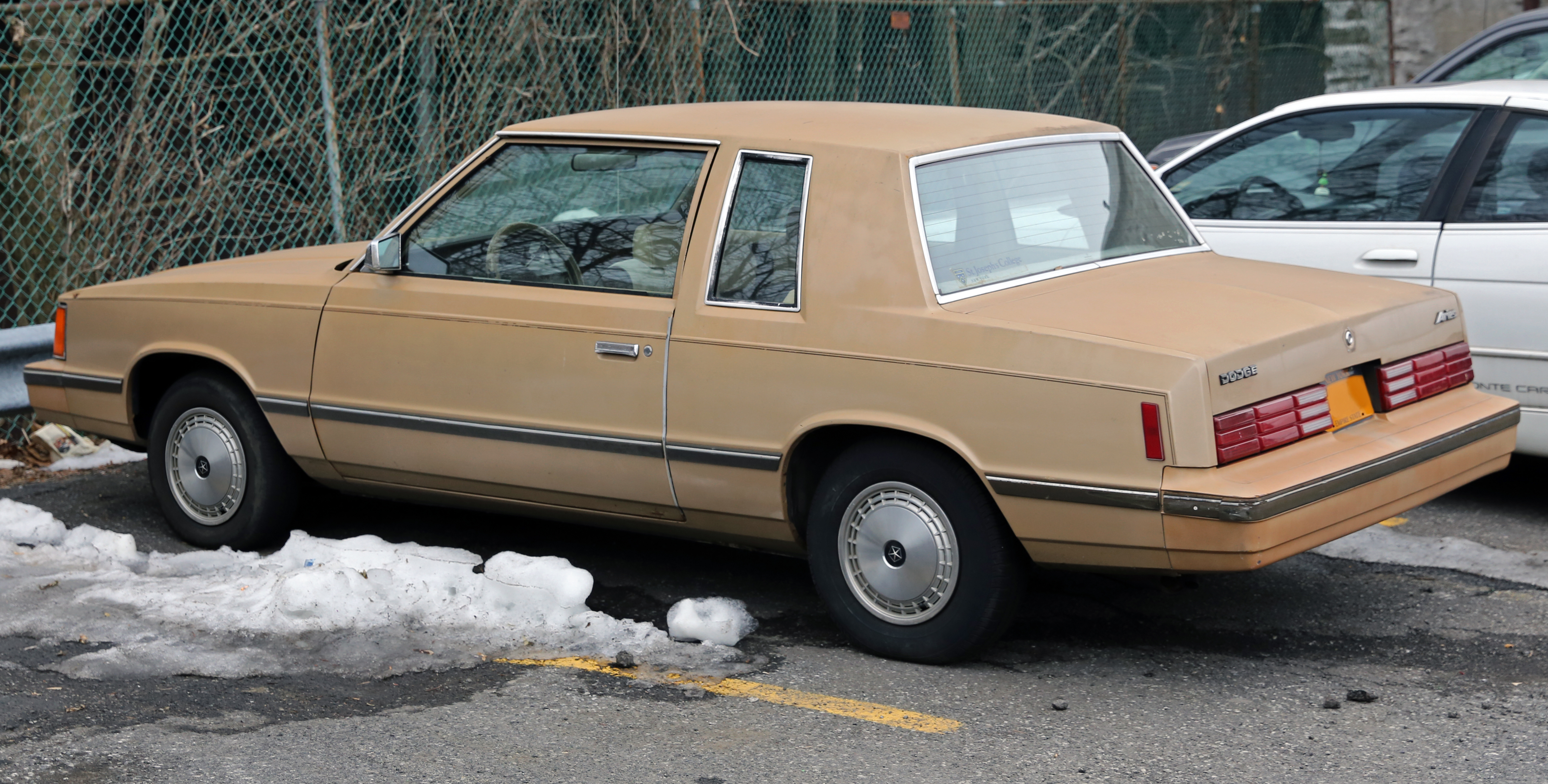 A 1984 Dodge Aries 2.2 coupe.